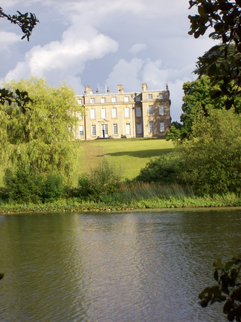 Ditchley Park, near Charlbury, Oxfordshire, UK.